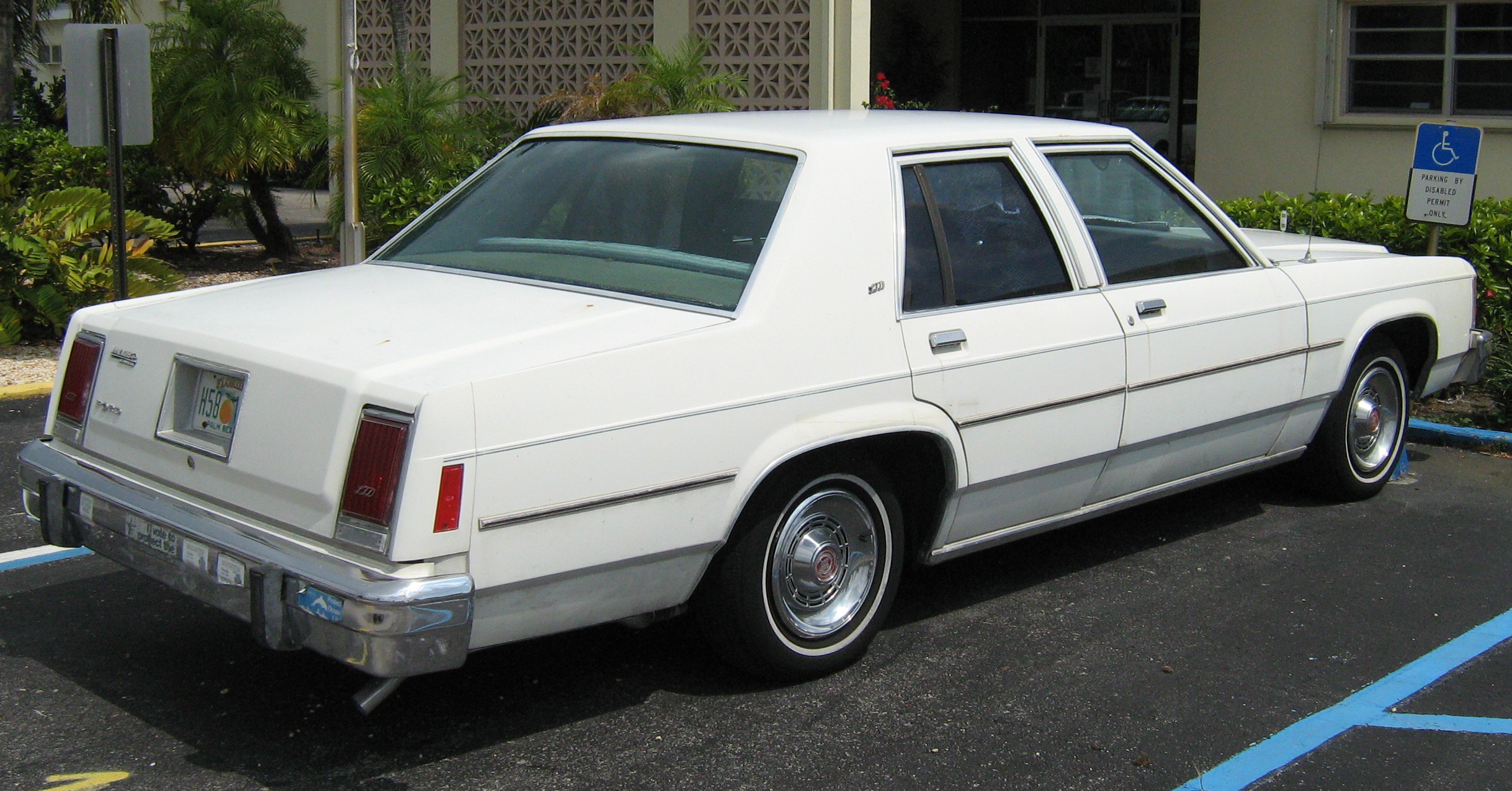 1979 Ford LTD 4-door sedan.Picture taken in Lantana, Florida.